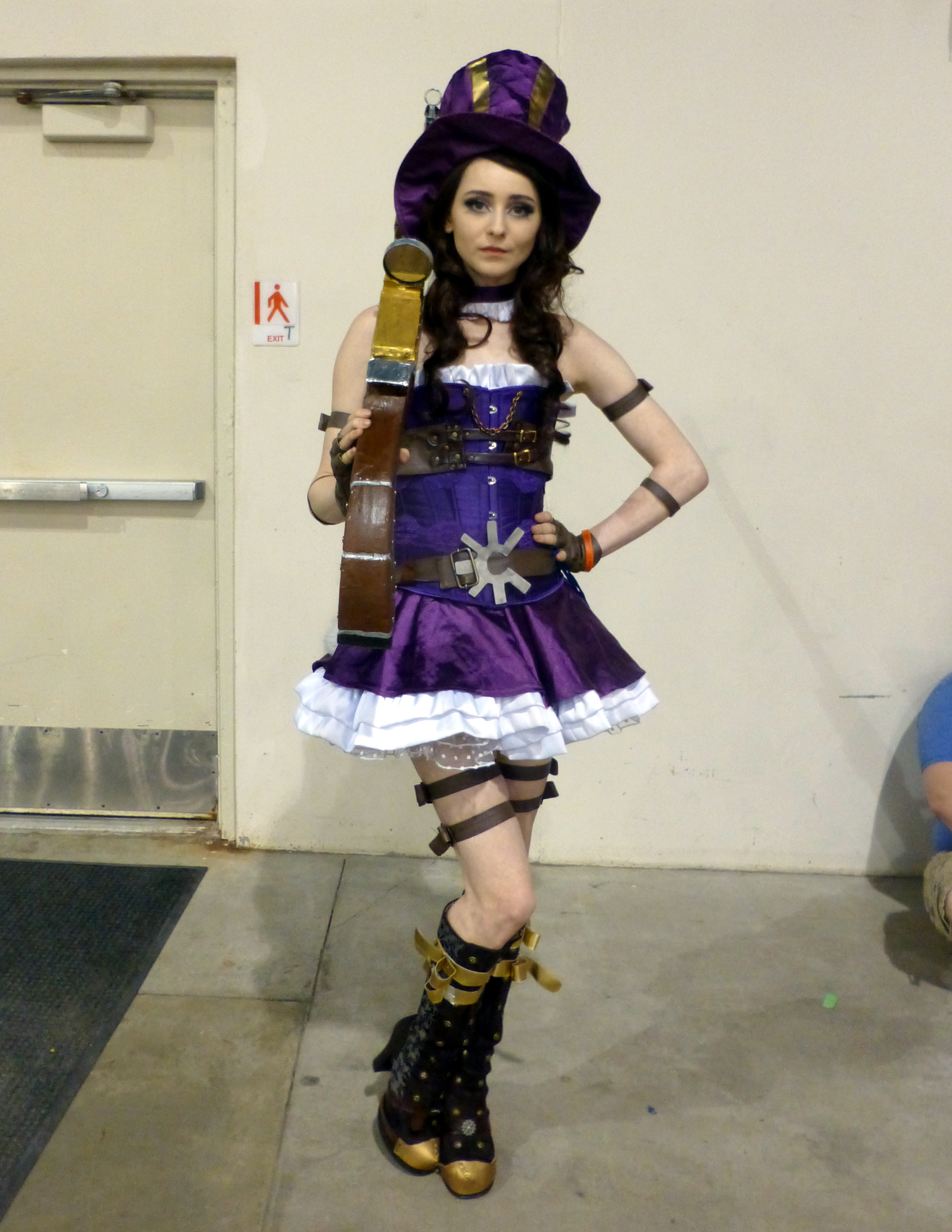 Caitlyn Cosplay at Motor City Comic Con 2015.